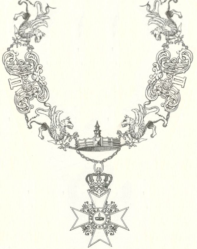 Collar of the House-Order of the Wendencrown, Mecklenburg-Schwerin